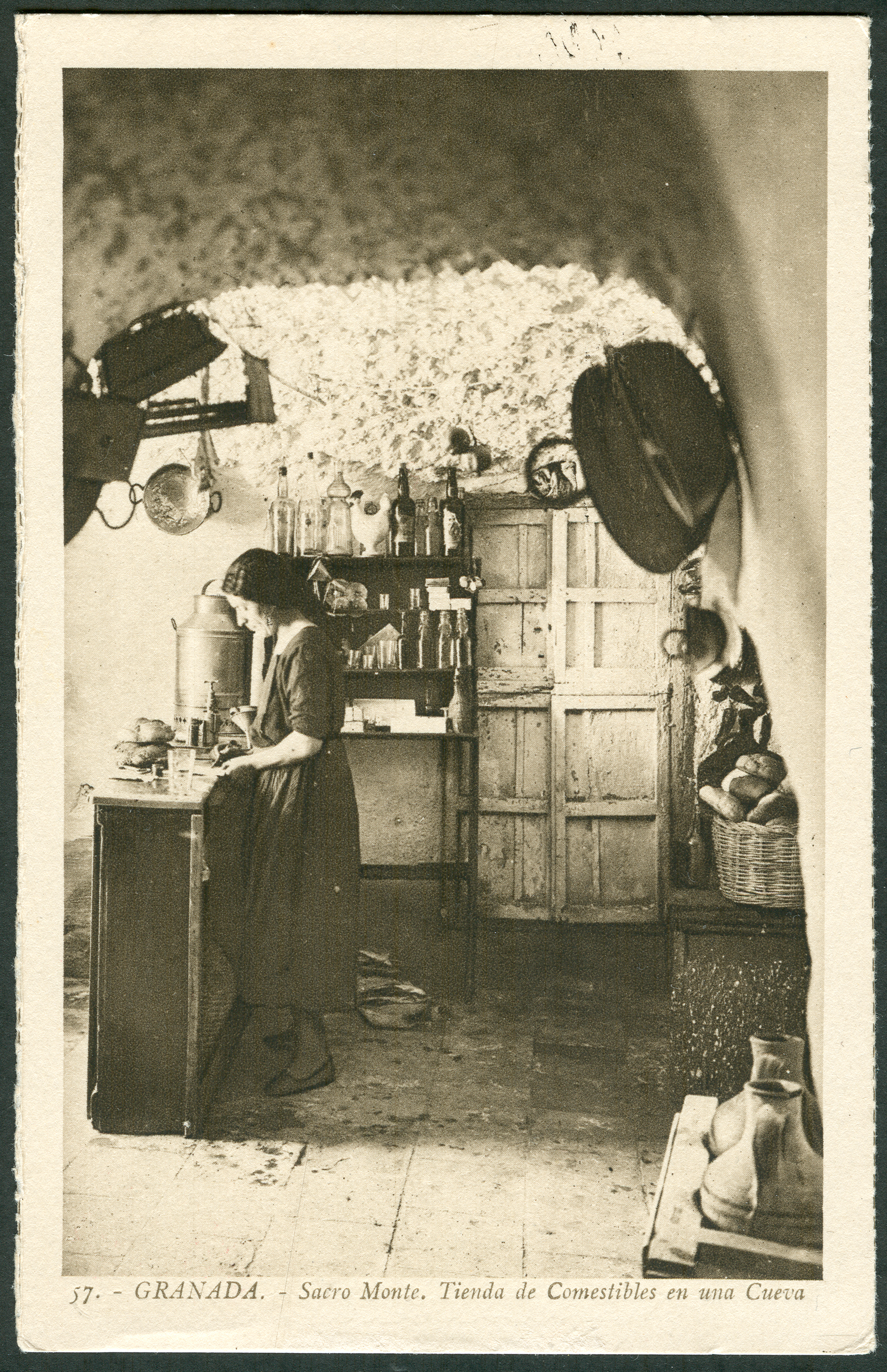 Postcard no. 57 by Lucien Roisin Besnard, Granada, Sacromonte ...